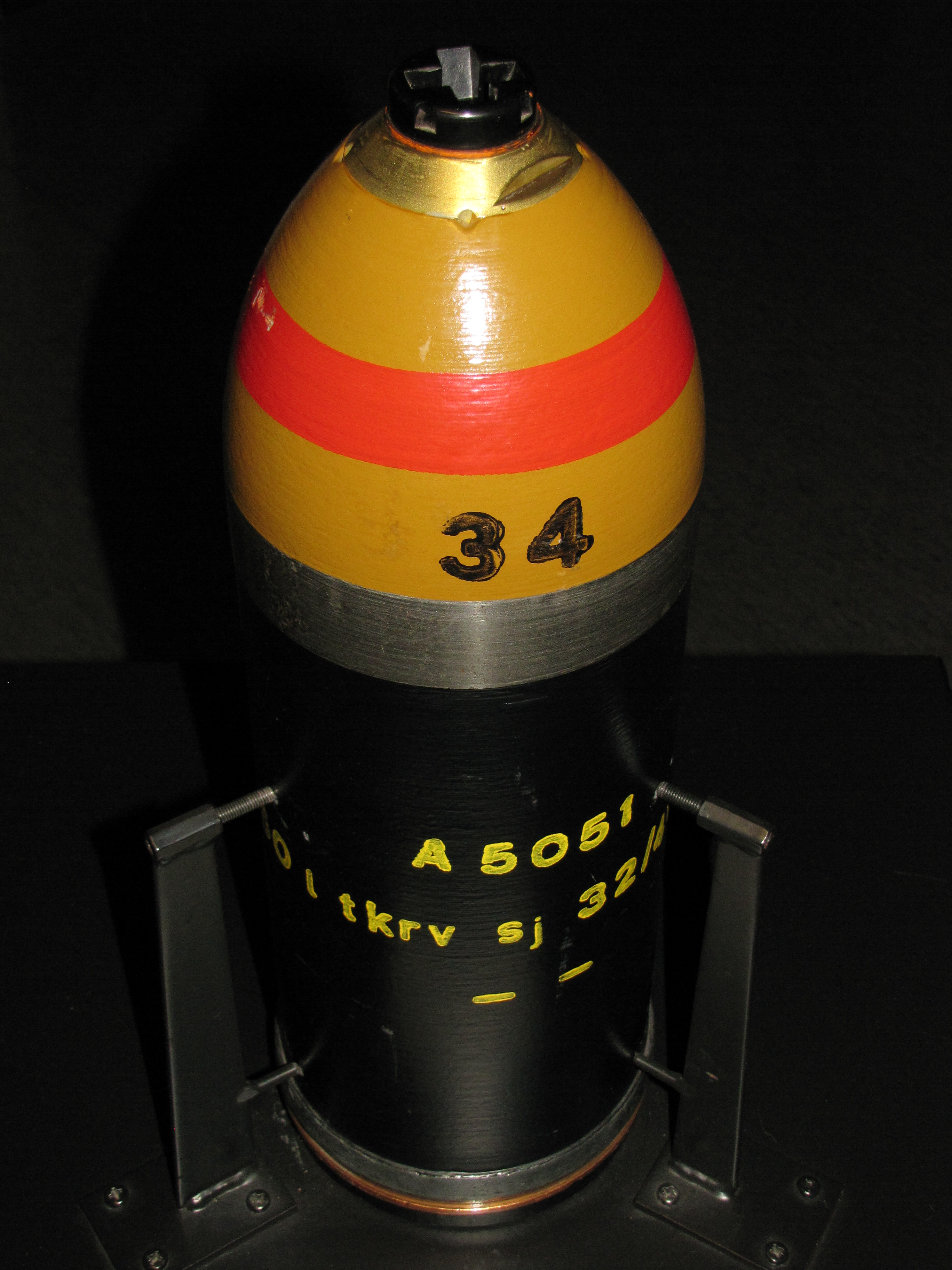 Artillery shell used by Finnish army in 150 H 14 J (Japanese Type 38 15cm Howitzer) in Hämeenlinna artillery museum. The actual calibre is 149.1 mm. Designation 150 mm short, old type, trotyl shell, fuze hole 32/41, model 34, zinc driving band. This shell could also be used with other 149.1 mm howitzers, 150 H 15 (15 cm Schwere Felthaubitze 15) and 150 H 06 (15 cm Positionshaubits m/06).